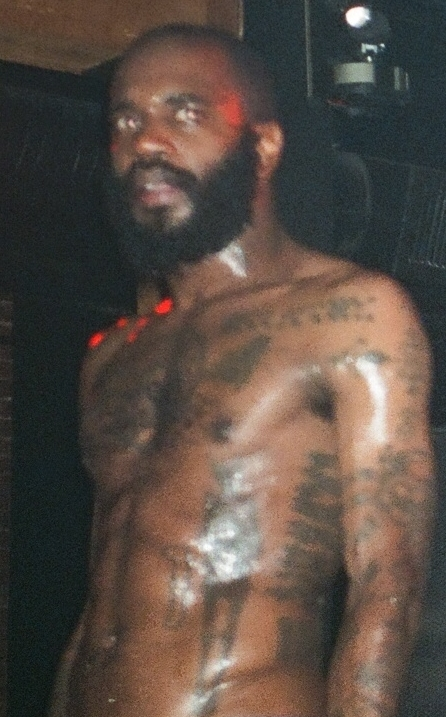 Death Grips